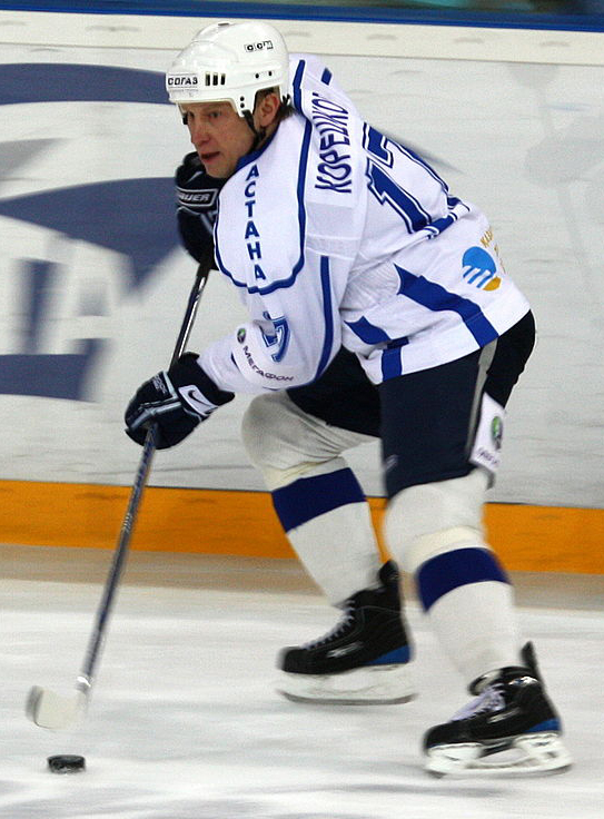 Alexander Koreshkov, 2009-01-17, KHL game Dynamo-Barys.